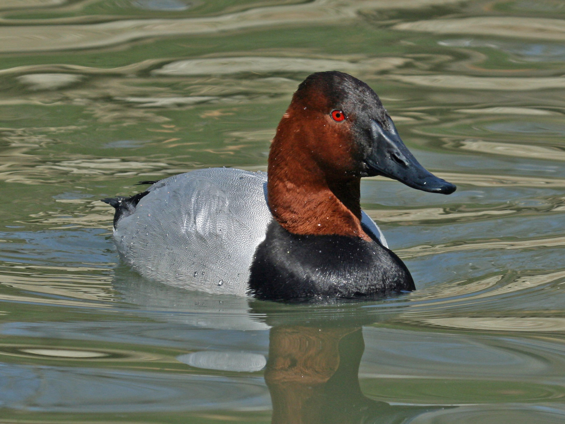 ♂ Canvasback (Aythya valisineria) at Sylvan Heights Waterfowl Park in Scotland Neck, North Carolina.